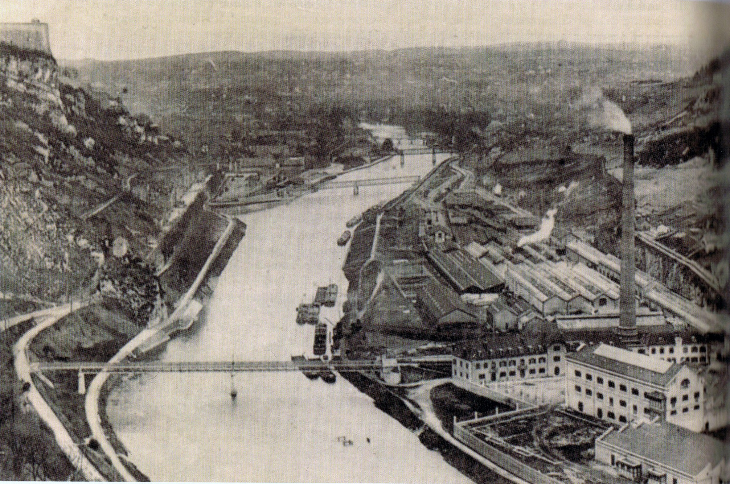 Factorys in Prés-de-Vaux secteur at the begining of the 20th century, in Besançon (Doubs, France).